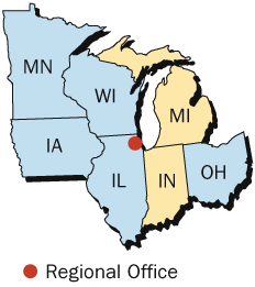 US Nuclear Regulatory Commission region 3 map